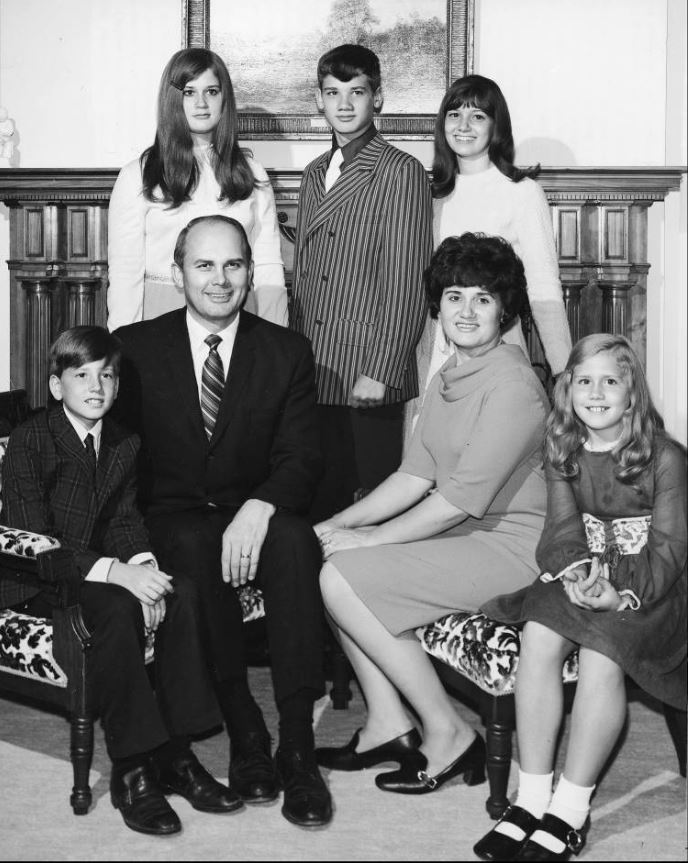 Dallin H. Oaks and family inauguration as Brigham Young University president portrait, 1971